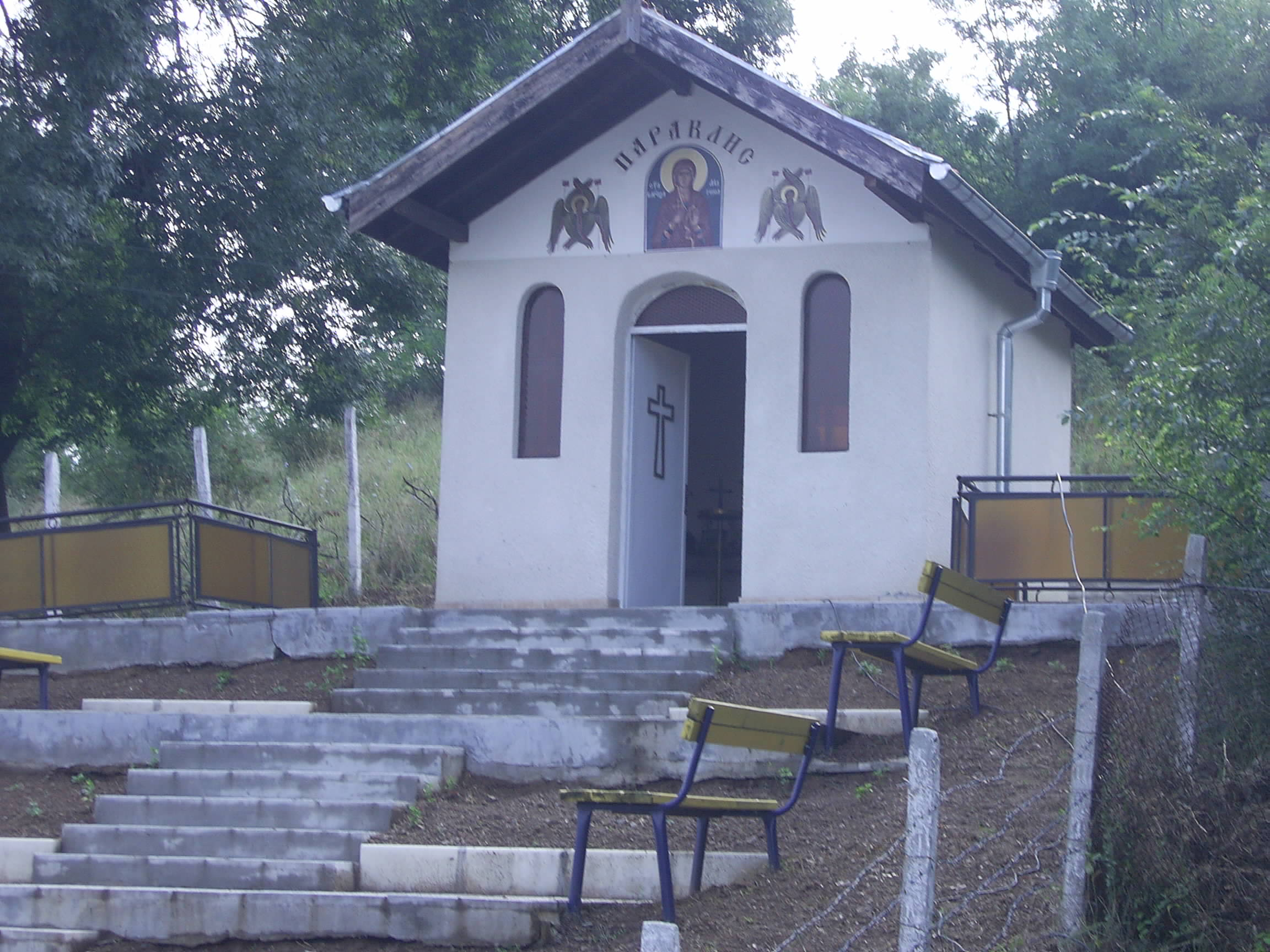 Chapel "Saint Marina" in village Marinka, Bulgaria